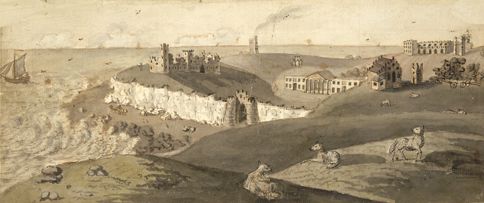 Holland House and surrounding follies, Kingsgate, near Margate, Kent. Built by Henry Fox, 1st Baron Holland (1705-1774).